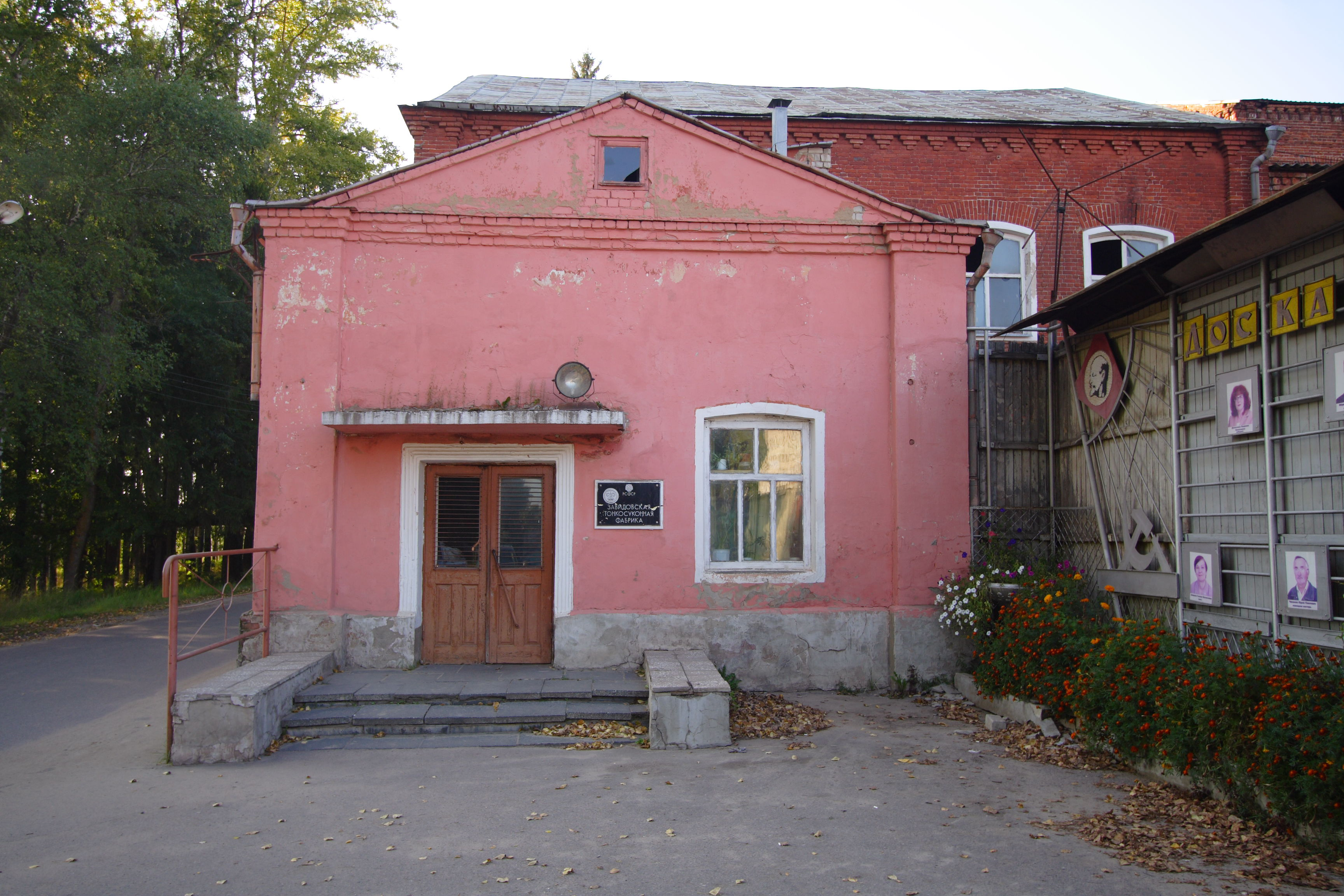 Chekpoint to Zavidovskaya fine cloth factory in Kozlovo.